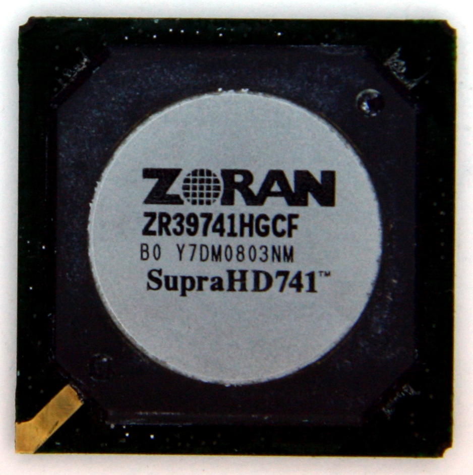 IC photo